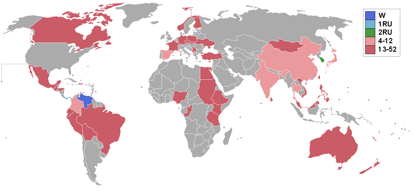 Miss International 2006 Map